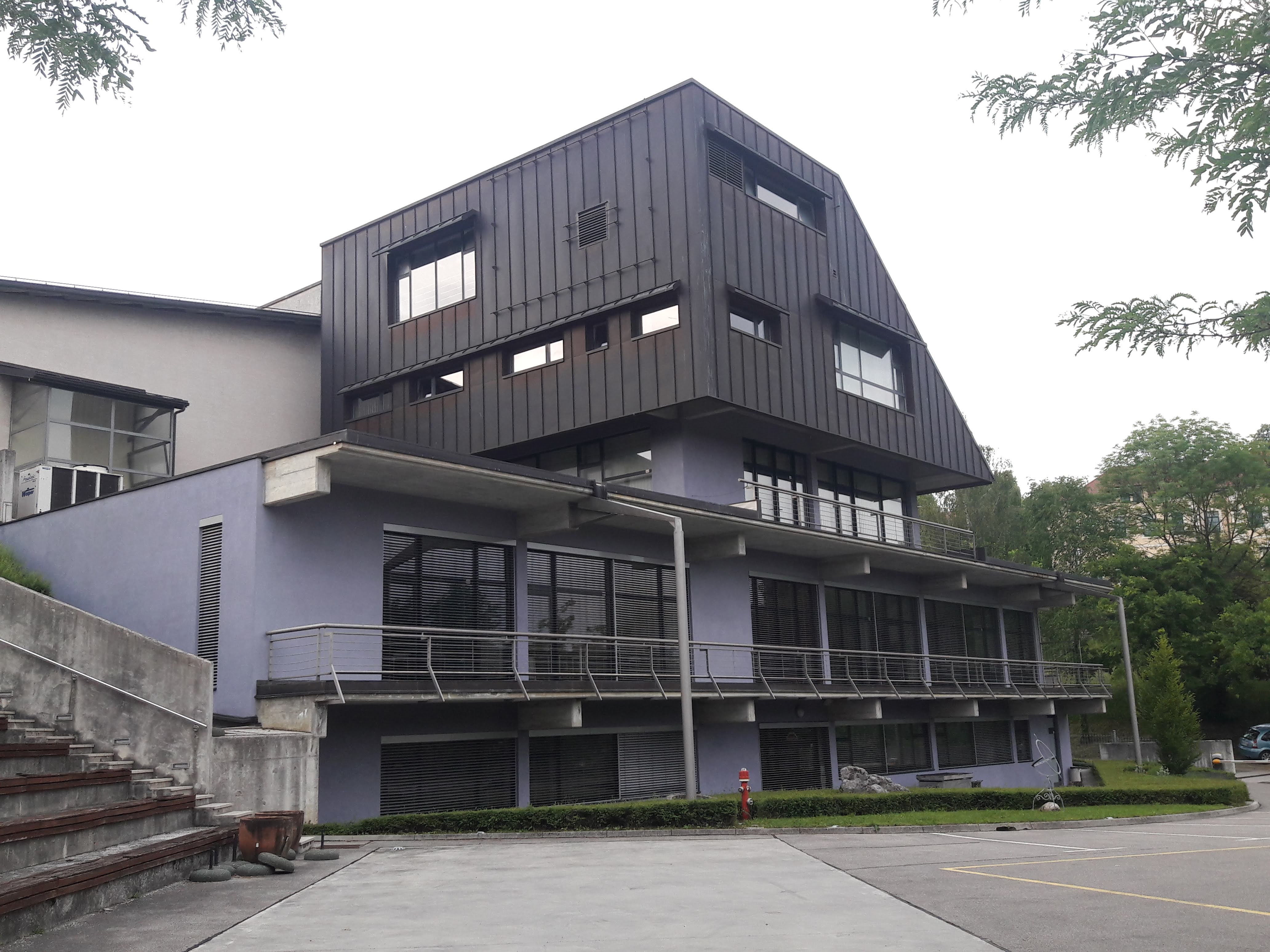 Universty of Novo Mesto